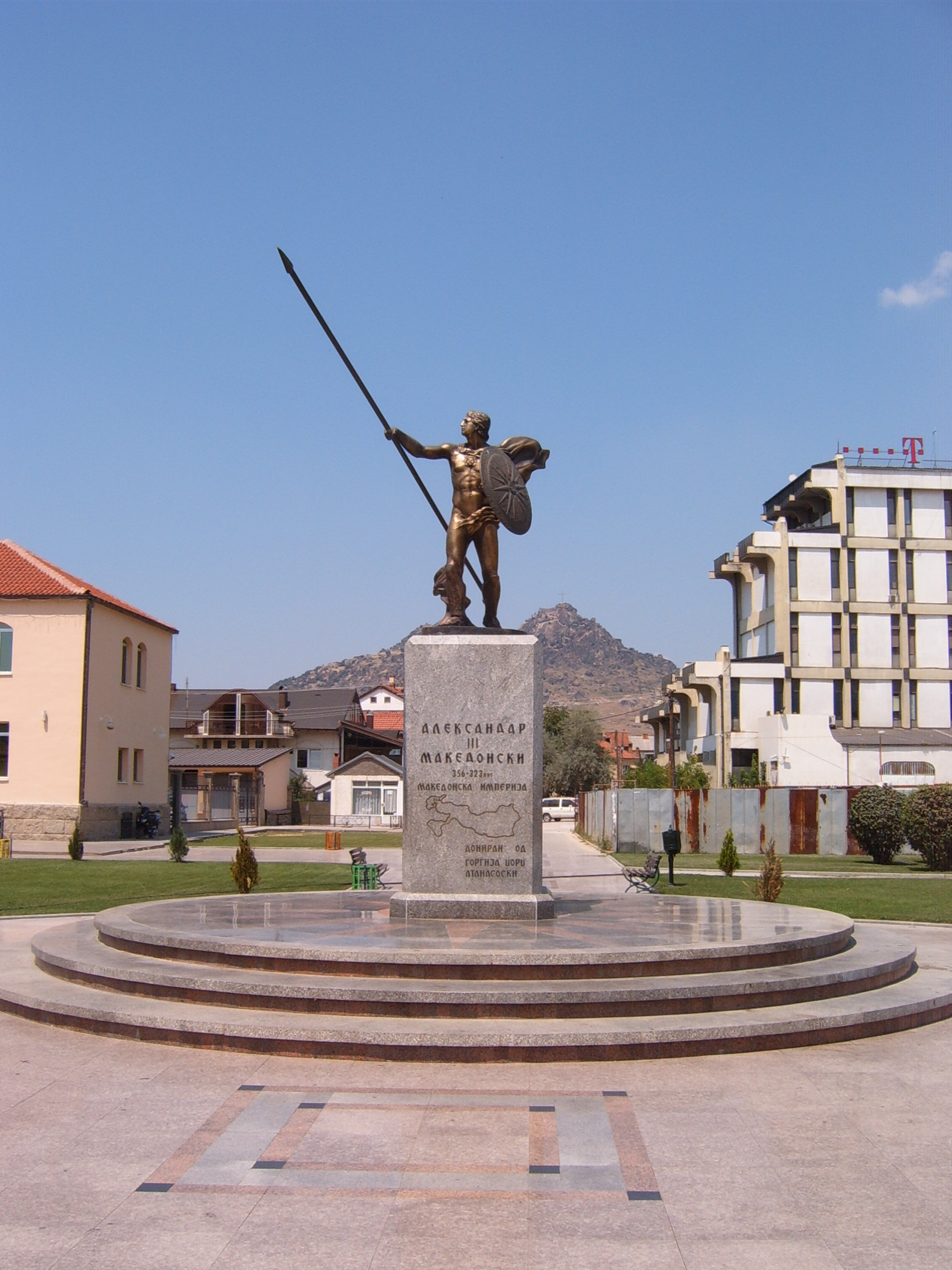 Monument to Alexandar the Great in Prilep